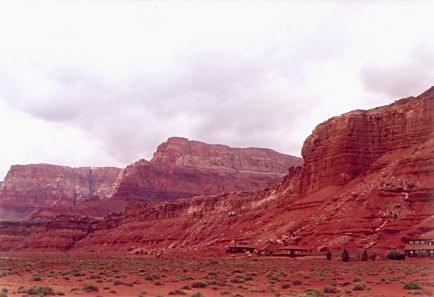 Vermilion Cliffs in Vermilion Cliffs National Monument, as seen from Lee's Ferry in Glen Canyon National Recreation Area, Arizona